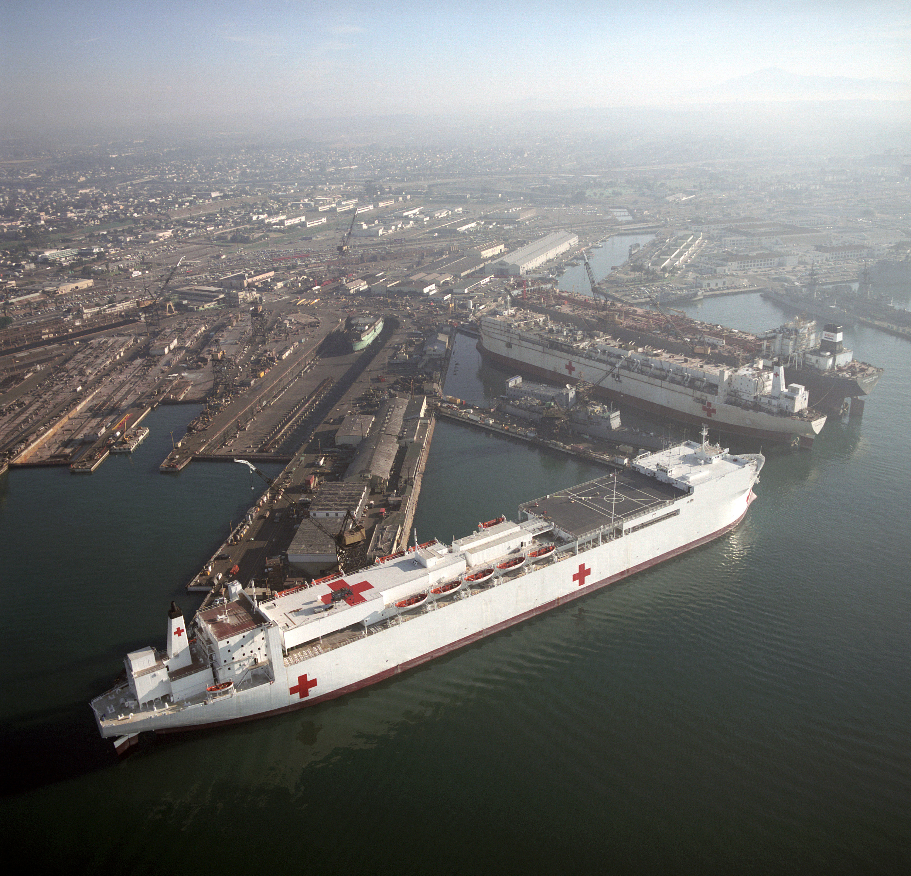 U.S. Navy ships at Naval Station San Diego, California (USA) piers, in December 1986. Visible are the two Mercy-class hospital ships USNS Mercy (T-AH-19) (left) and the USNS Comfort (T-AH-20) tied up at the National Steel and Shipbuilding Company (NASSCO) piers. NASSCO is located within NAVSTA. Also visble is USS Albert David (FF-1050) undergoing overhaul and two Knox-class frigates in the background.